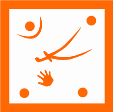 Flag of Mahmut pasha Bushatli - 1796 (Skadar). From book - MCP "Svetigora": "Sveti Petar Cetinjski, čudotvorac i državotvotac" Cetinje, 2006.